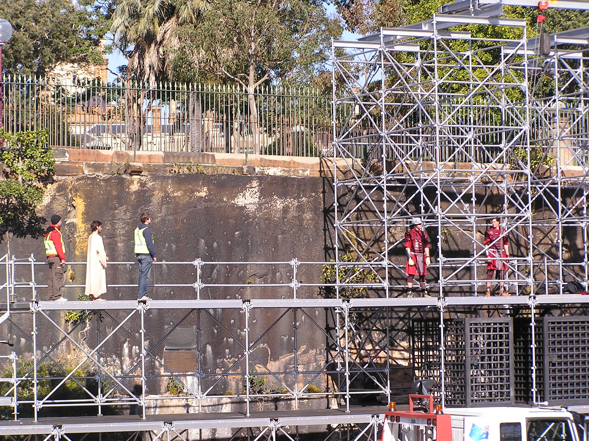 rehearsal on 12 July 2008 for World Youth Day Station of the Cross near the Sydney Opera House